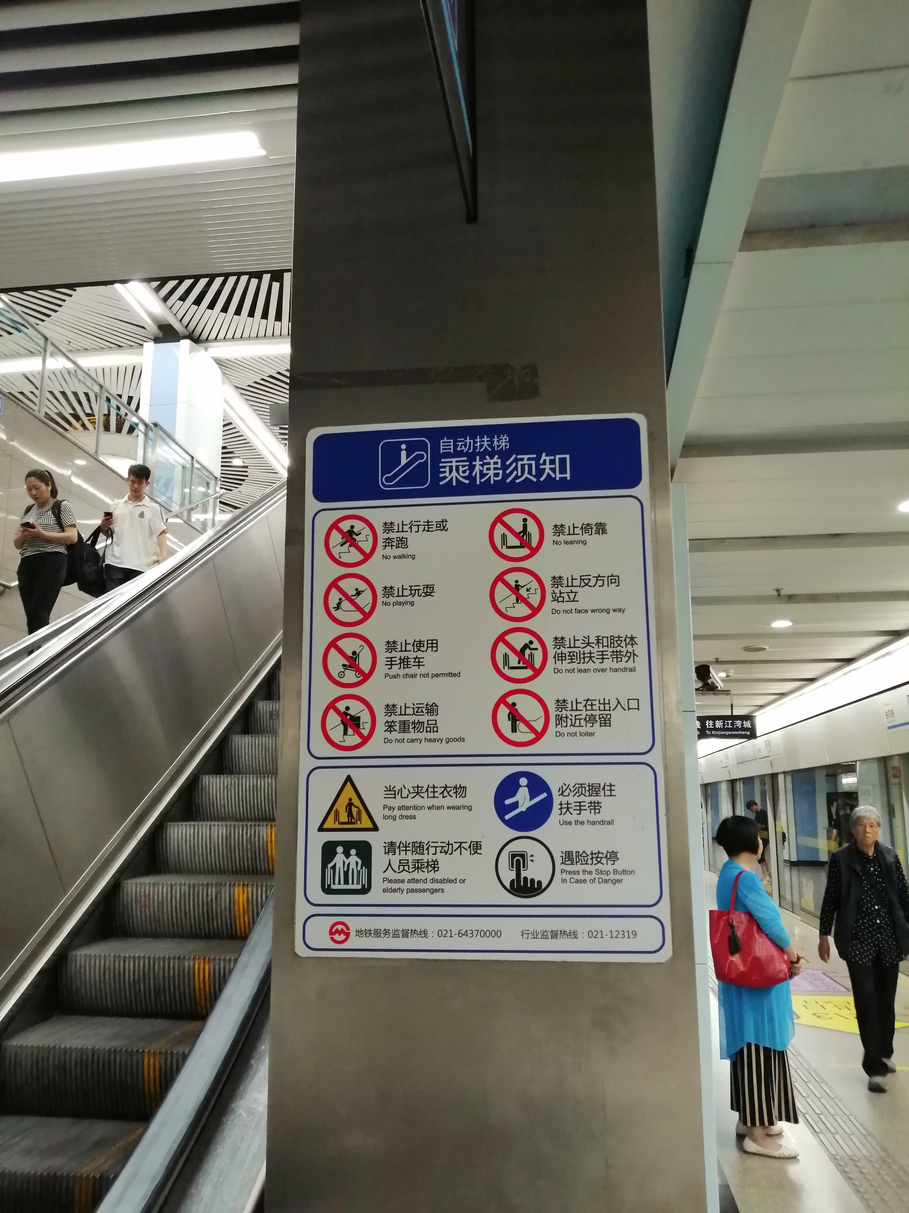 The no walking notice on a escalator at Siping Road Station 中文（中国大陆）: 四平路地铁站的禁止在手扶电梯上行走的提示